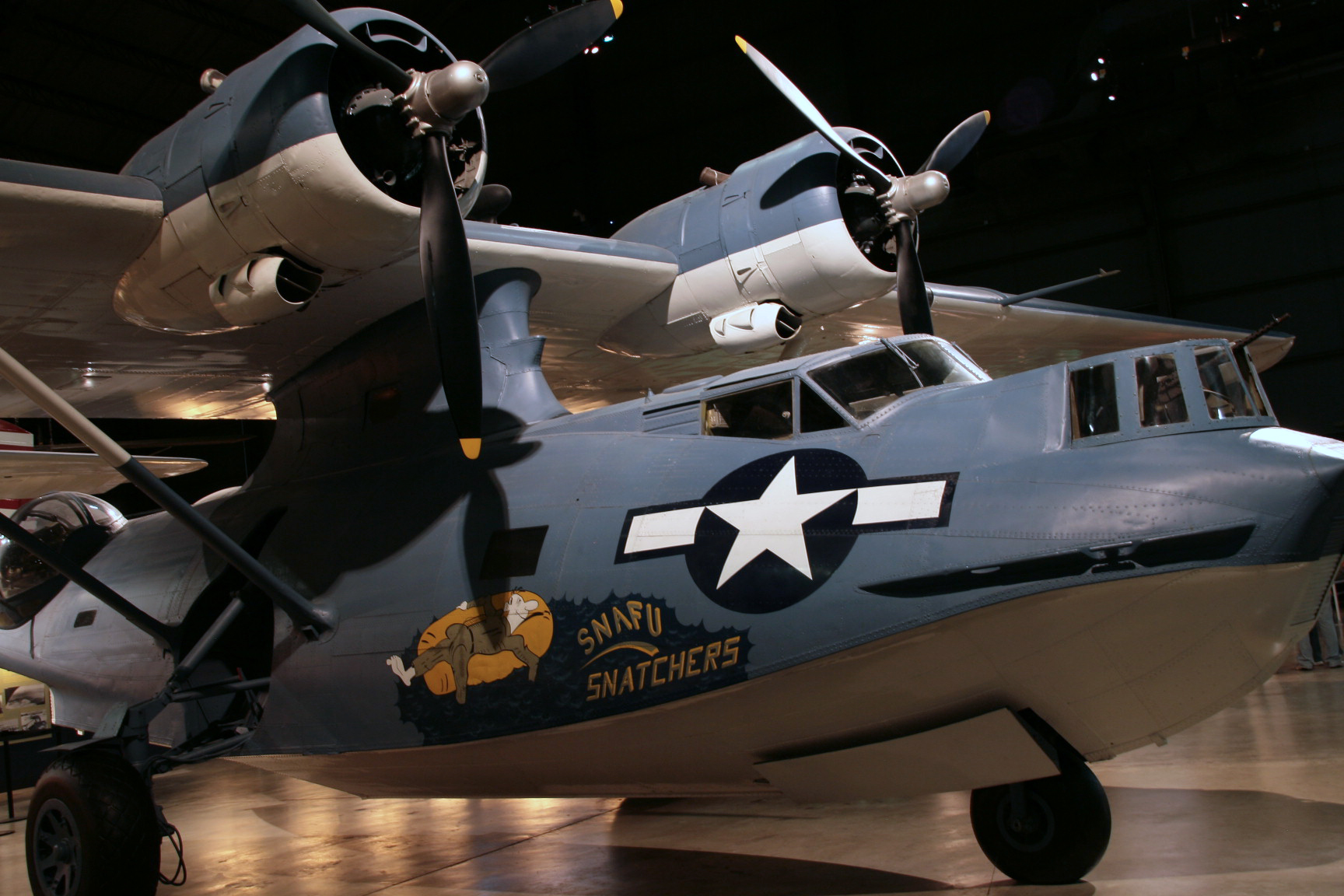 Catalina PBY OA-10 on display at the USAF Museum in Dayton, OH. Taken by Greg Hume May 27, 2008.